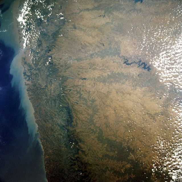 STS052-072-043 Western Ghats, India October 1992 The rugged, forest-covered Western Ghats, an almost uninterrupted chain that parallels the west Indian coast of the Arabian Sea for 1000 miles (1600 kilometers), can be seen in this west- southwest-looking photograph. The mountains present a formidable barrier to winds and transportation; few highways and railroads traverse the chain. With elevations of 3000 to 5000 feet (900 to 1500 meters) above the narrow coastal plain, the mountains have steep seaward faces, while their landward sides that connect with Deccan Plateau (east side of the photograph) are gentle and rolling. Annual precipitation of 70 inches (178 centimeters) along the coast decreases inland to less than 30 inches (76 centimeters). The streams of the Western Ghats are used for hydroelectric power generation. Partially obscured by clouds (northwest corner of the photograph) is the city of Bombay.